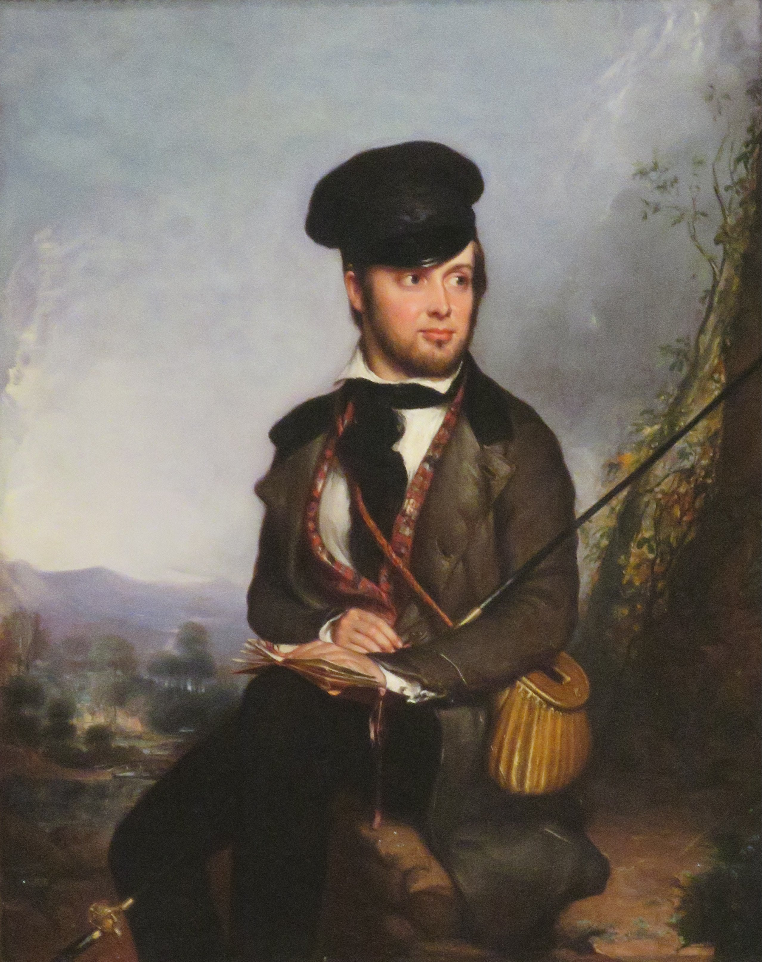 The Angler (Portrait of Charles Lanman) by William James Hubard, oil on canvas, 1846, High Museum of Art